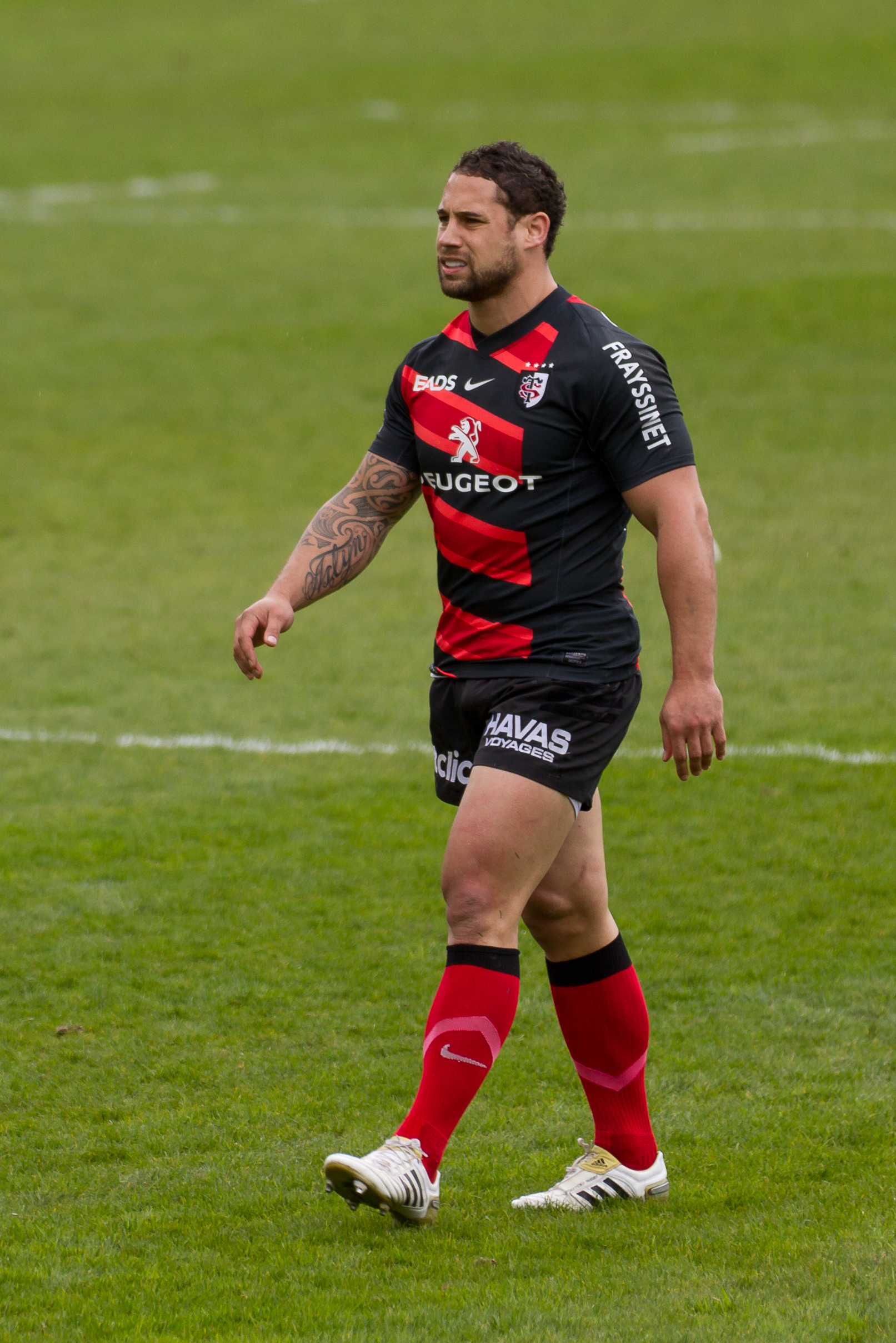 Top 14 — 21 April 2012, Stade Ernest-Wallon. Match between: Stade toulousain — CA Brive